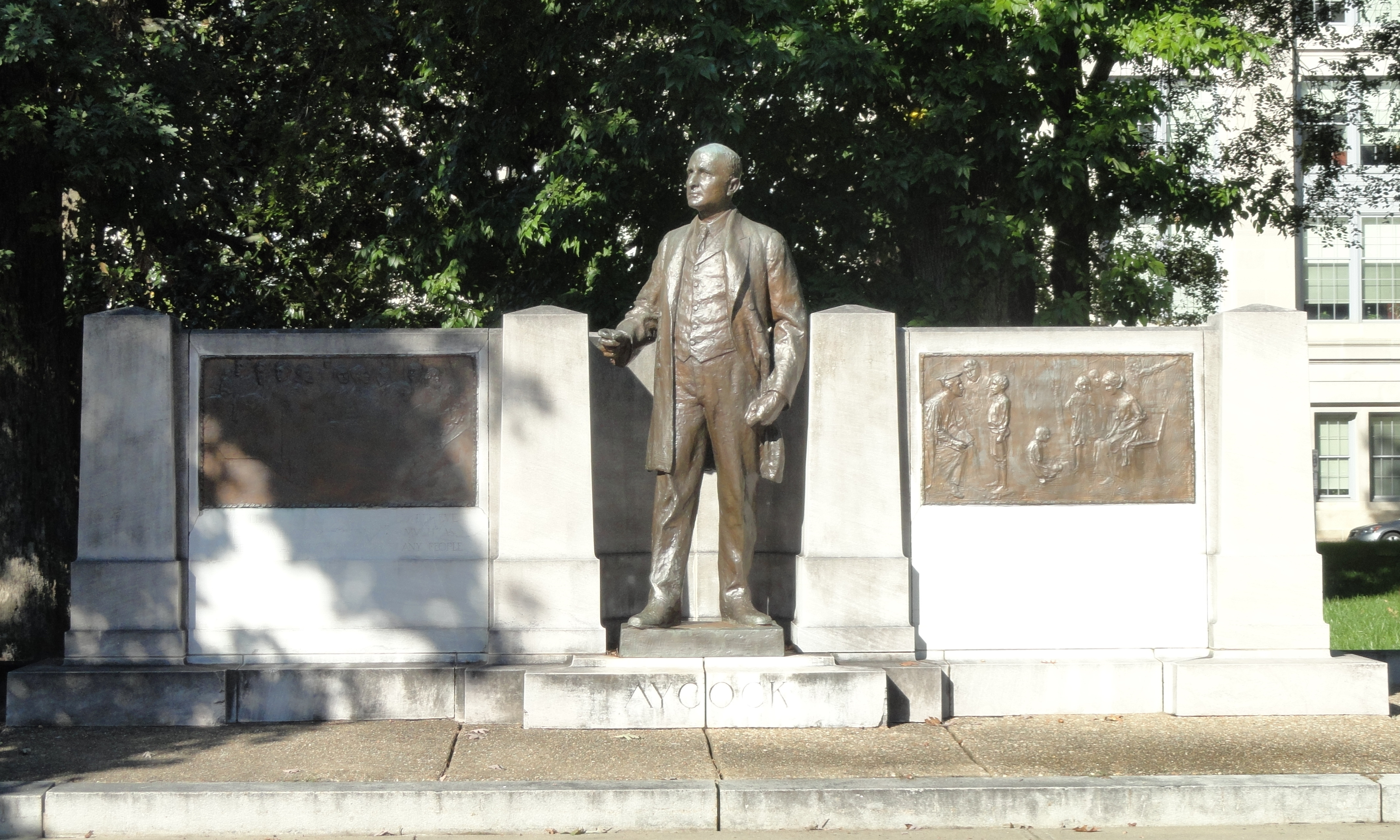 Memorial to Charles Brantley Aycock by Gutzon Borglum. North Carolina State Capitol, Raleigh, North Carolina, USA. Now in the public domain, since Borglum died more than 70 years ago (March 6, 1941).